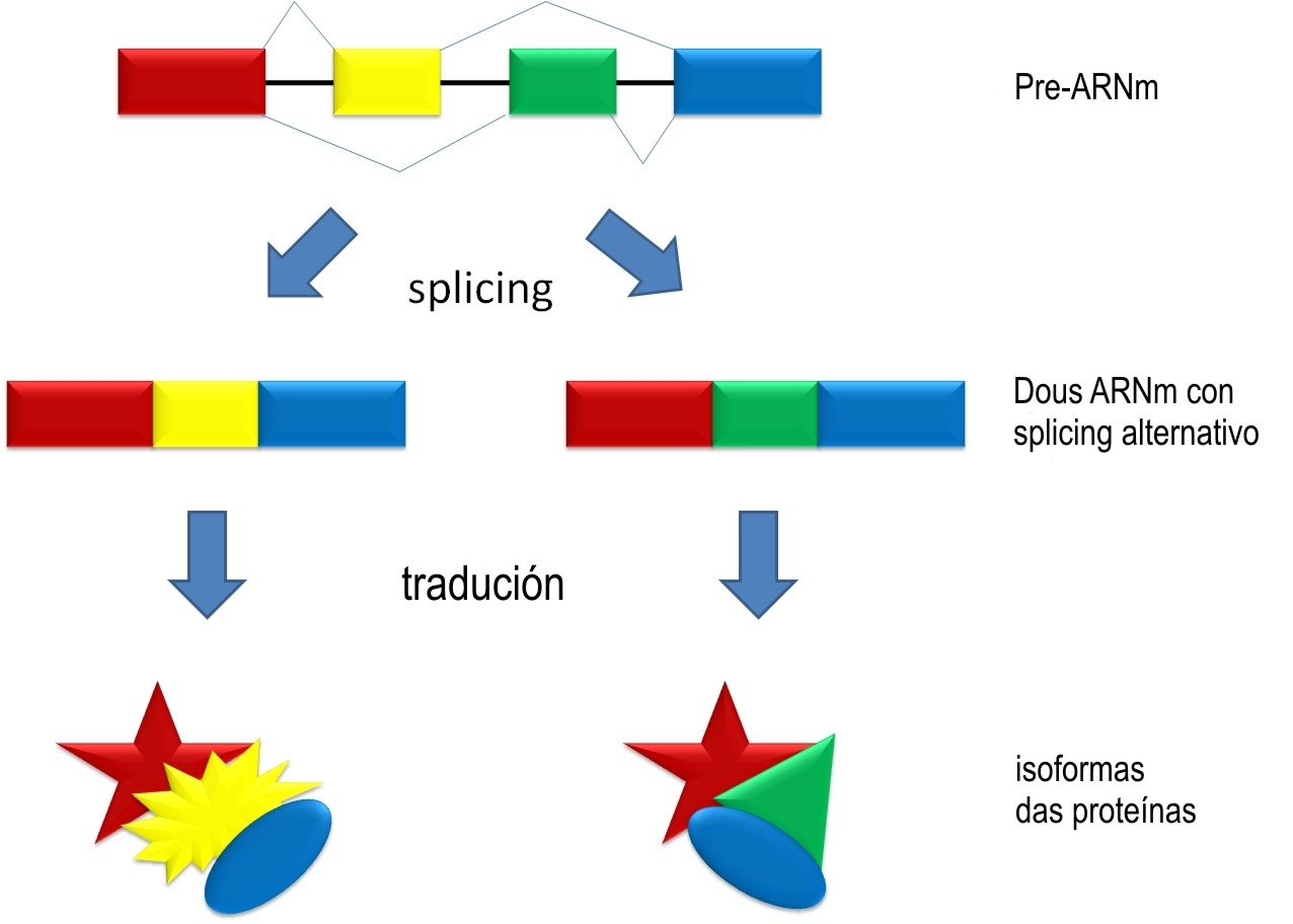 Two protein isoforms originated by alternative splicing, translated to Galician